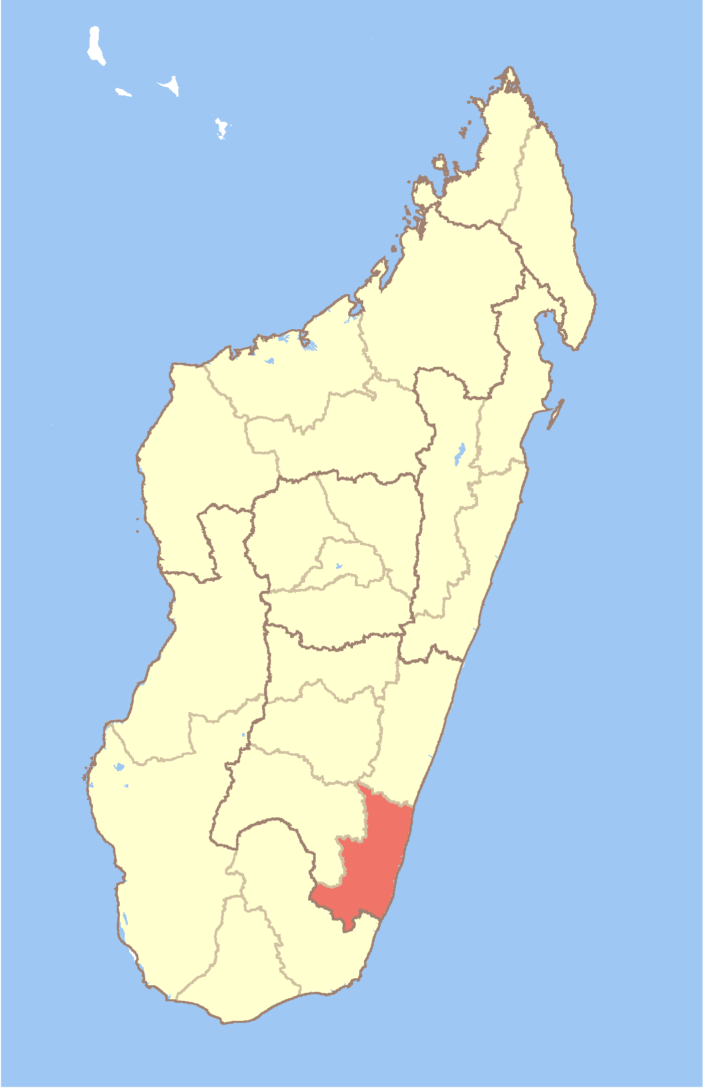 Map of Madagascar with Atsimo Atsinanana Region highlighted